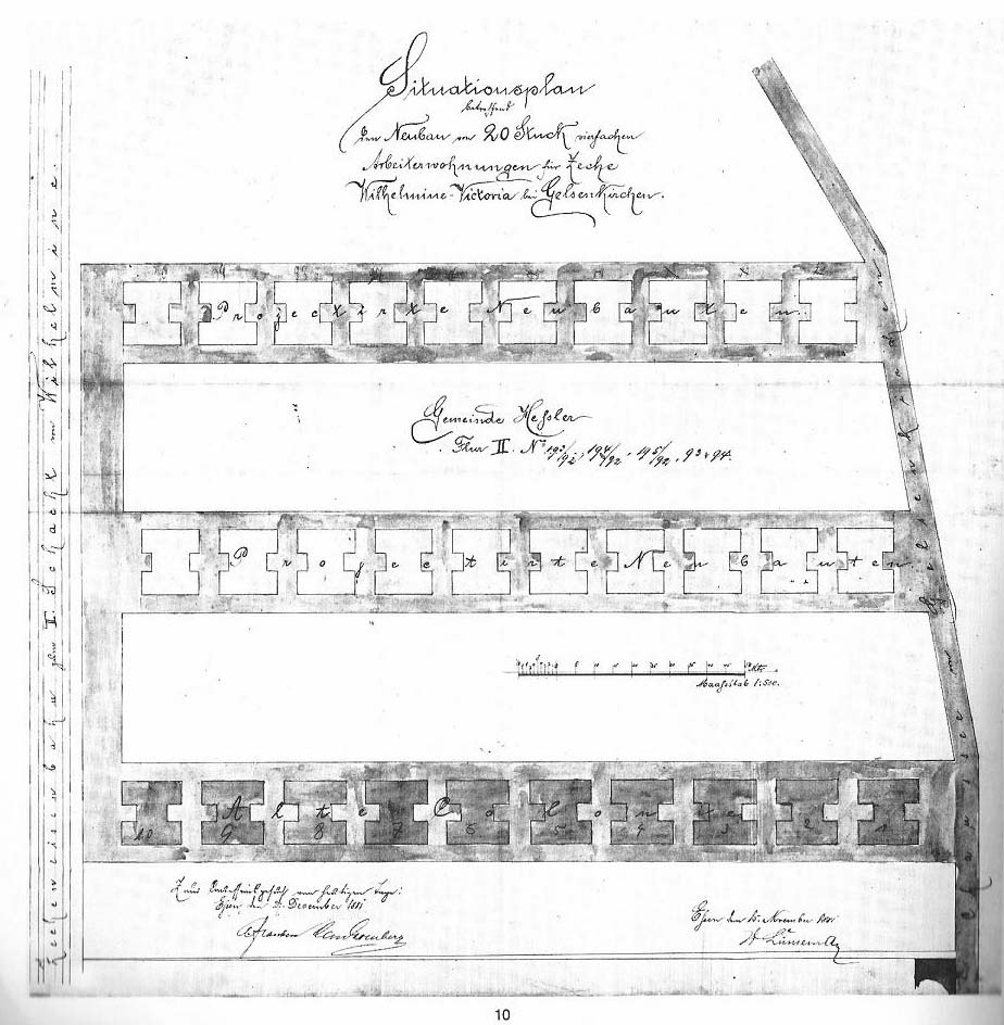 Plan of the settlement Klapheckenhof